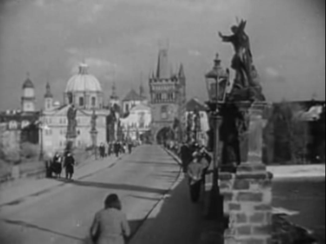 Charles Bridge, Prague.